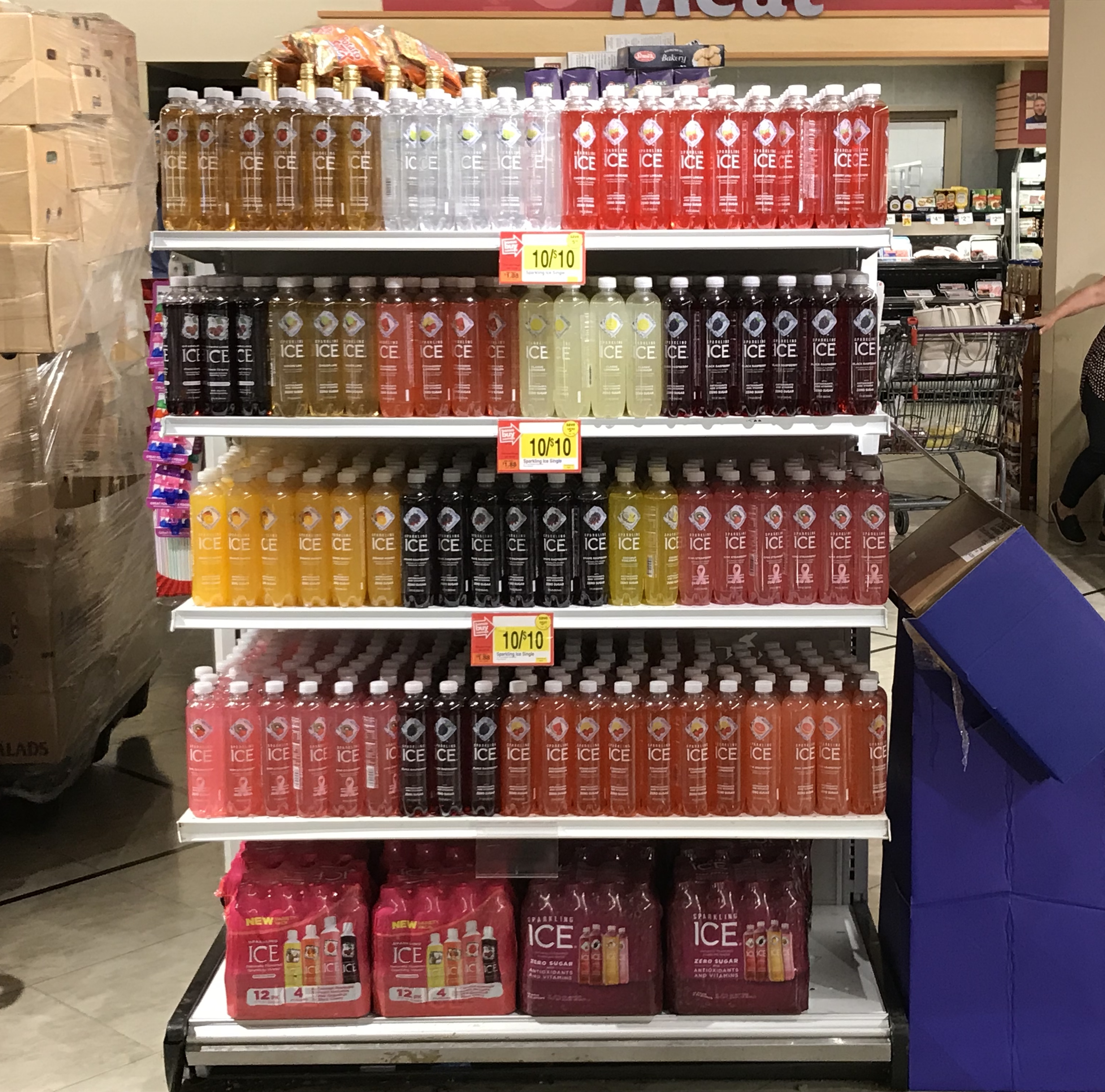 Sparkling Ice product in a stock